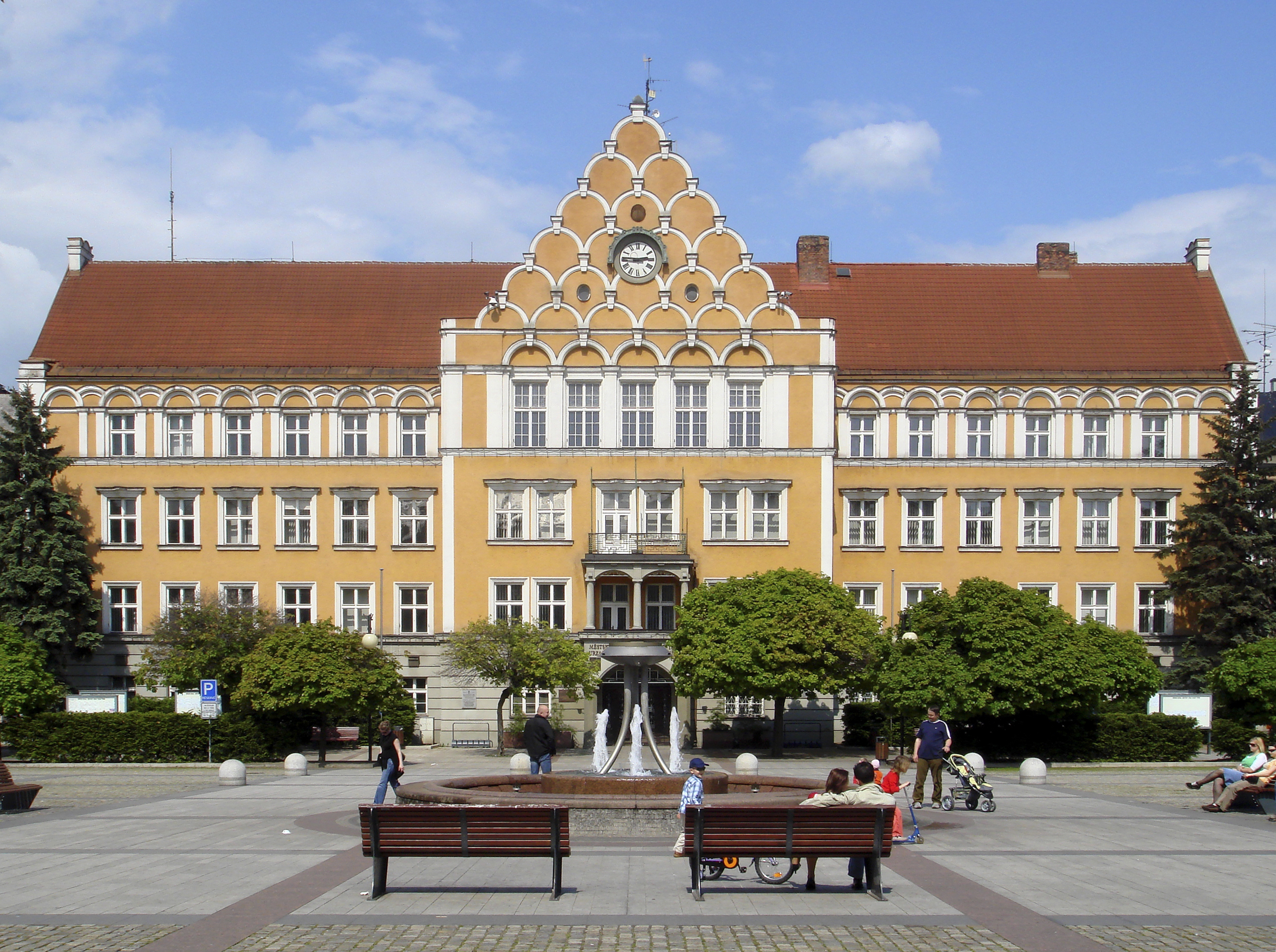 The Town Hall in Český Těšín (Moravian-Silesian Region, Czech Republic).